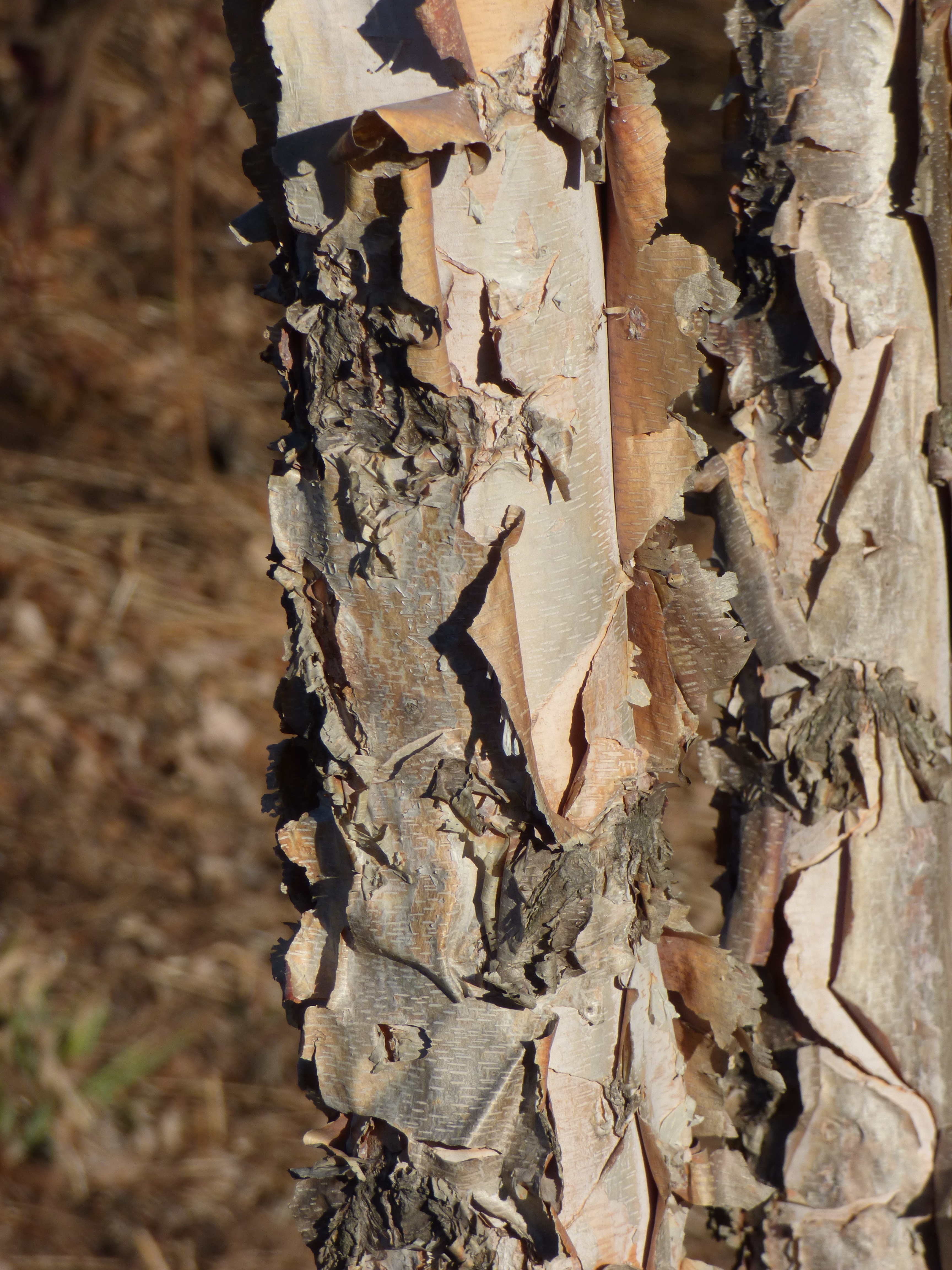 River Birch (Betula nigra)